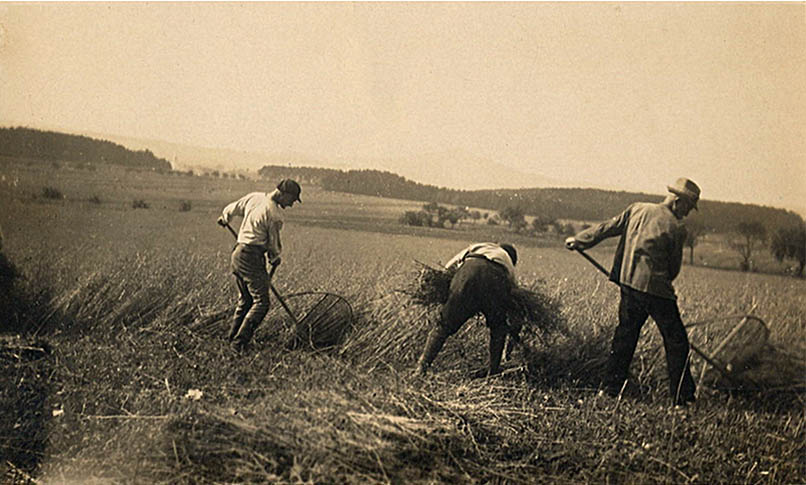 Work in betzenrud, Settlements in Israel (?)